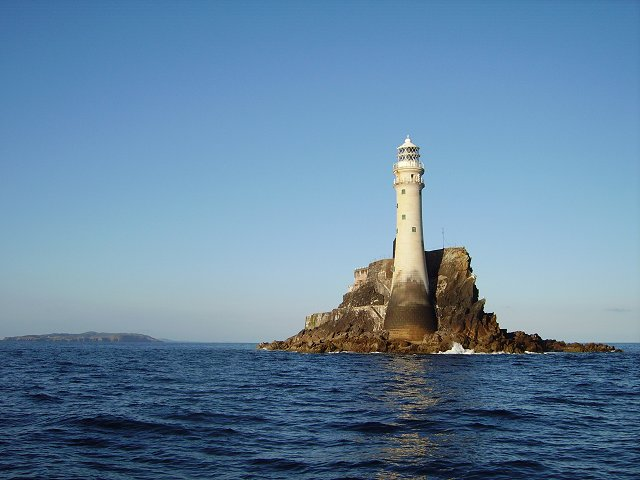 Fastnet or Carraig Aonair